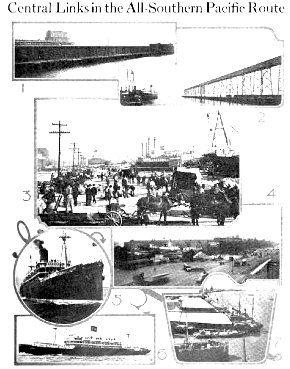 Links in the Southern Pacific water—rail "Sunset—Gulf Route" from New York to San Francisco. Captions read: 1) Southern Pacific docks at Galveston, Texas, 2) Grain carriers and ships at Galveston, 3) Unloading sugar at New Orleans, 4) Southern Pacific docks at New York City, 5) The Southern Pacific steamer Creole, 6) The S.S. Momus entering New York Bay, 7) West end of the docks at Galveston